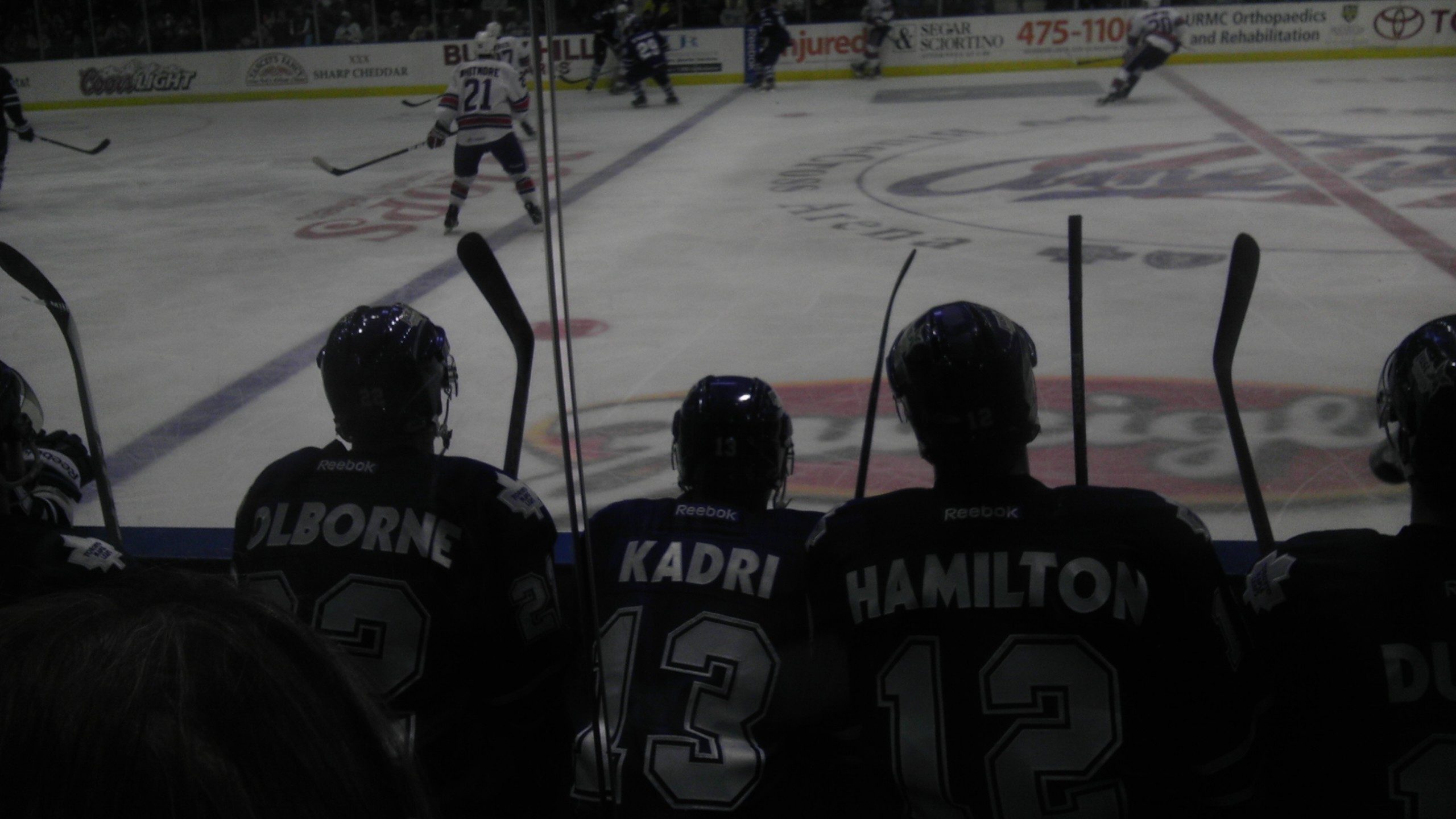 Joe Colborne, Nazem Kadri and Ryan Hamilton on the bench vs. the Rochester Americans